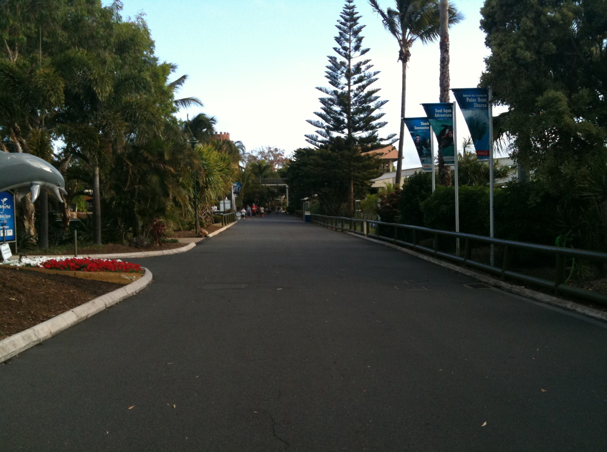 The main pathway through Sea World Australia.